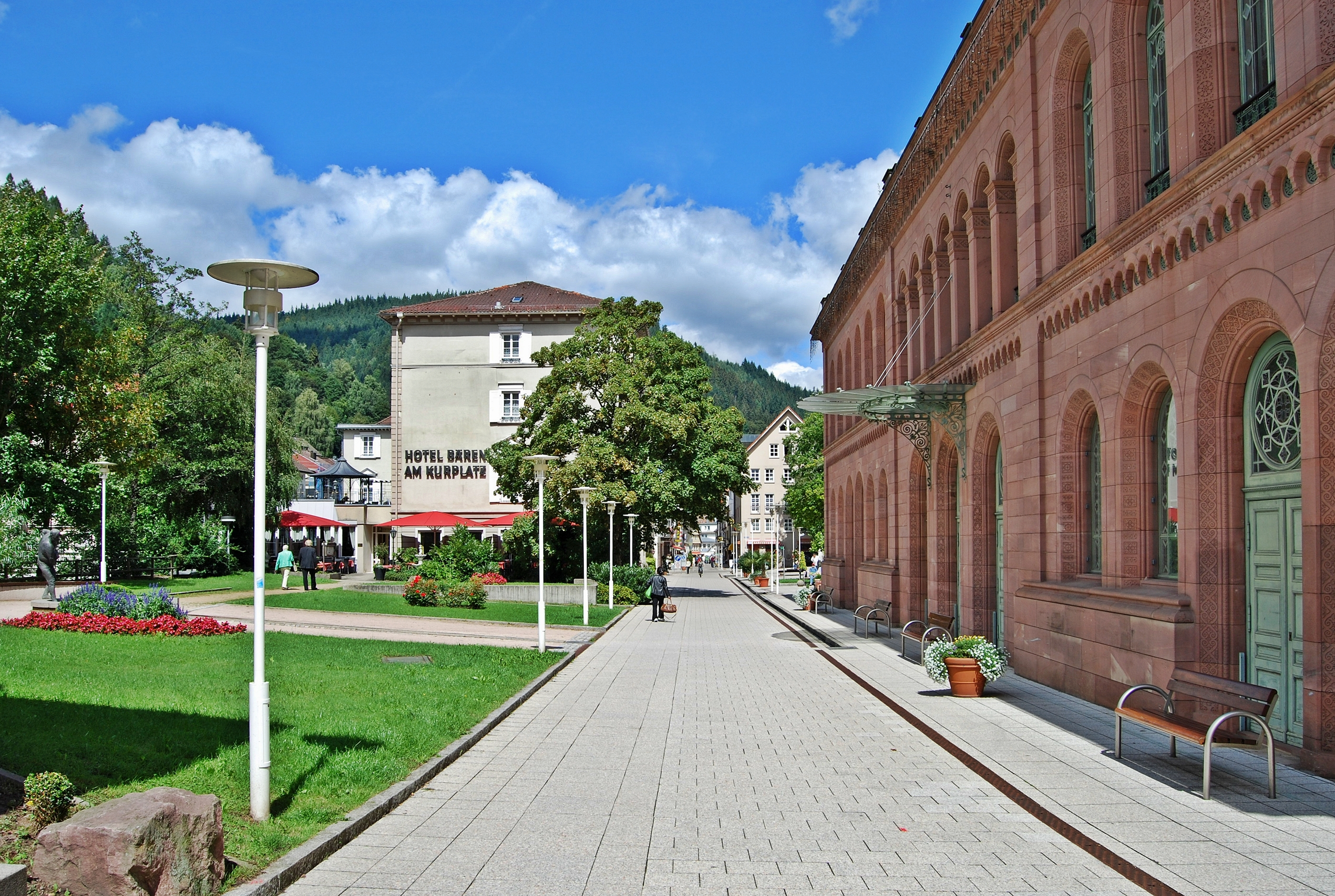 Kurplatz in Bad Wildbad, Black Forest.